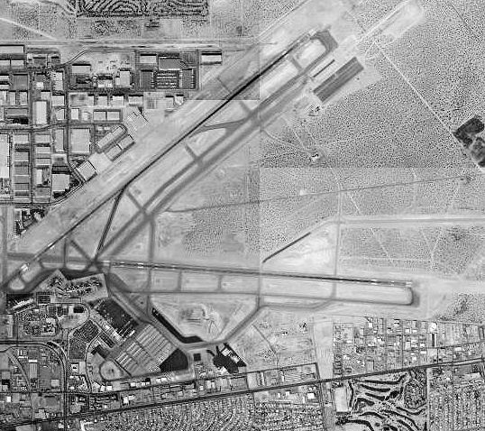 El Paso Airport, TX – 28 Jan 1996